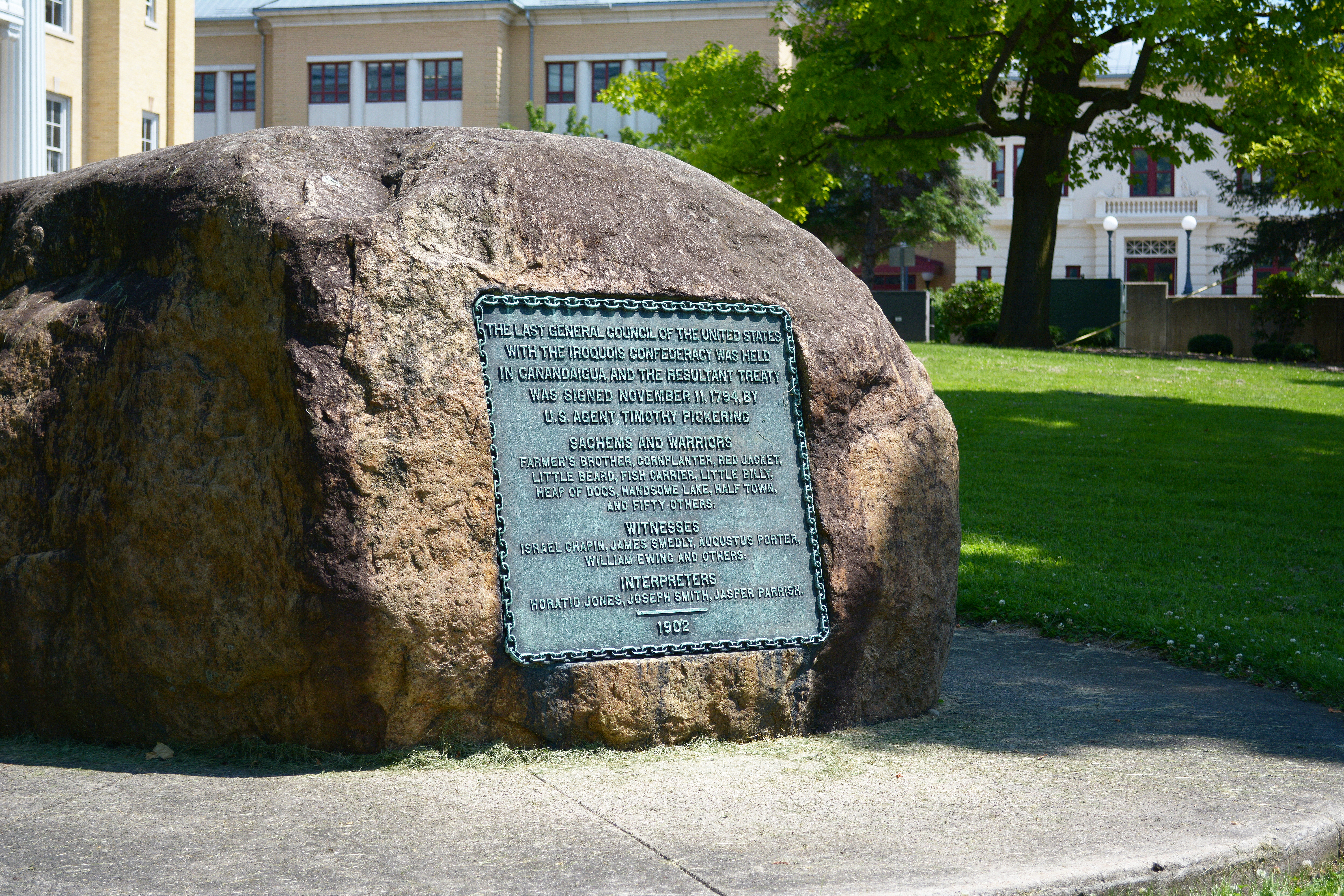 Boulder on the lawn of the Ontario County Courthouse, Canandaigua NY, placed there in 1902 by Dr. Dwight R. Burrell to commemorate the 1794 Treaty of Canandaigua also called the “Pickering Treaty.”